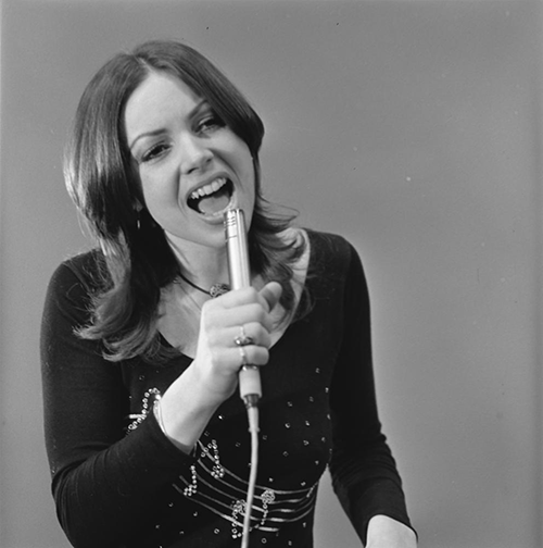 Jerney Kaagman (Earth & Fire) in AVRO's TopPop (Dutch television show) in 1973